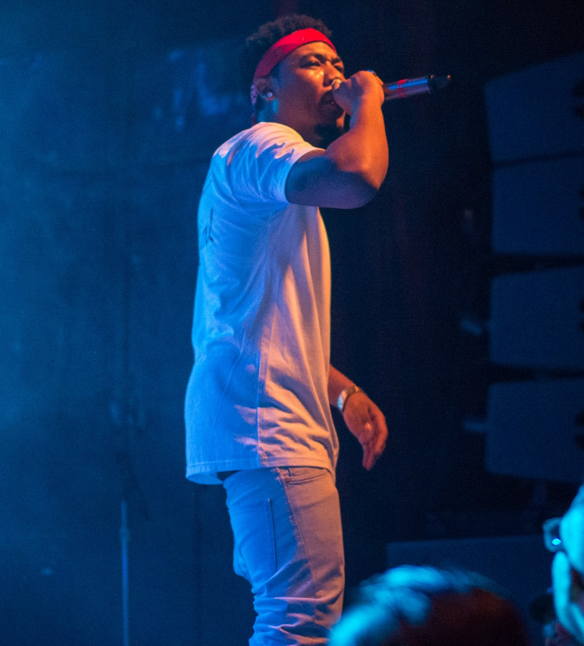 Cozz performs at The Mod Club in Toronto.